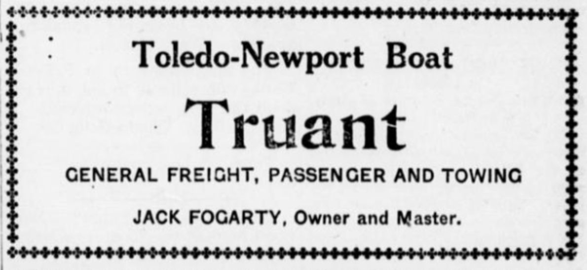 Ad for steamer Truant, operating on Yaquina Bay, date September 10, 1915.